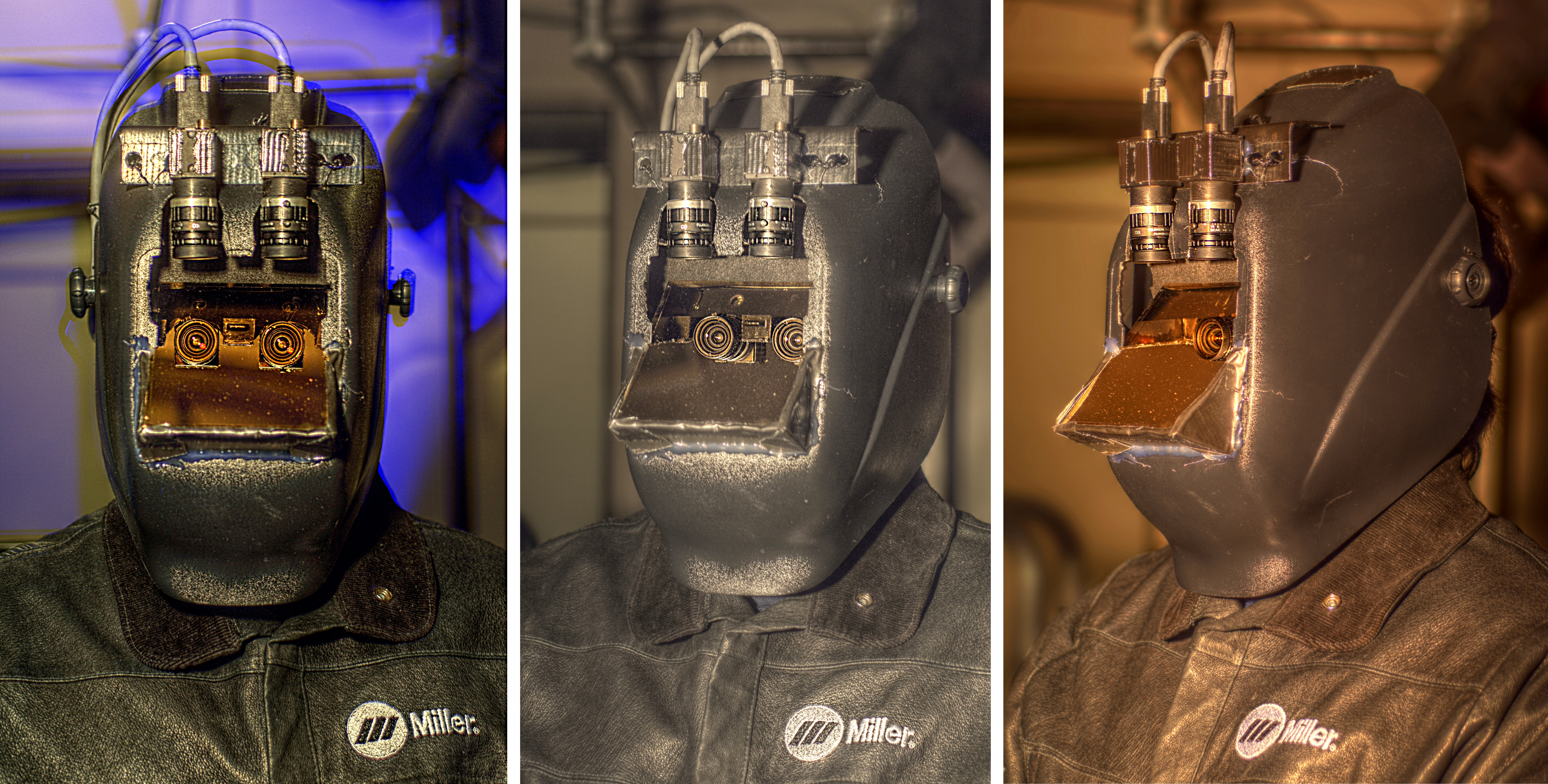 EyeTap Digital Eye Glass welding helmet for Augmediated Reality with HDR vision